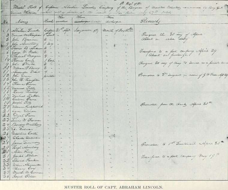 Muster roll made by Abraham Lincoln (listed as captain on first line) during his tenure as company commander of a rifle company in the Black Hawk War of 1832. Original was in possession of Frank Stevens in 1903, the author listed above.